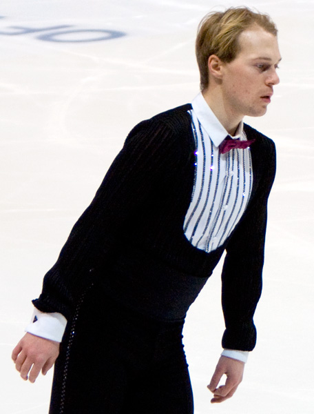 2010 Cup of Russia, free skating.